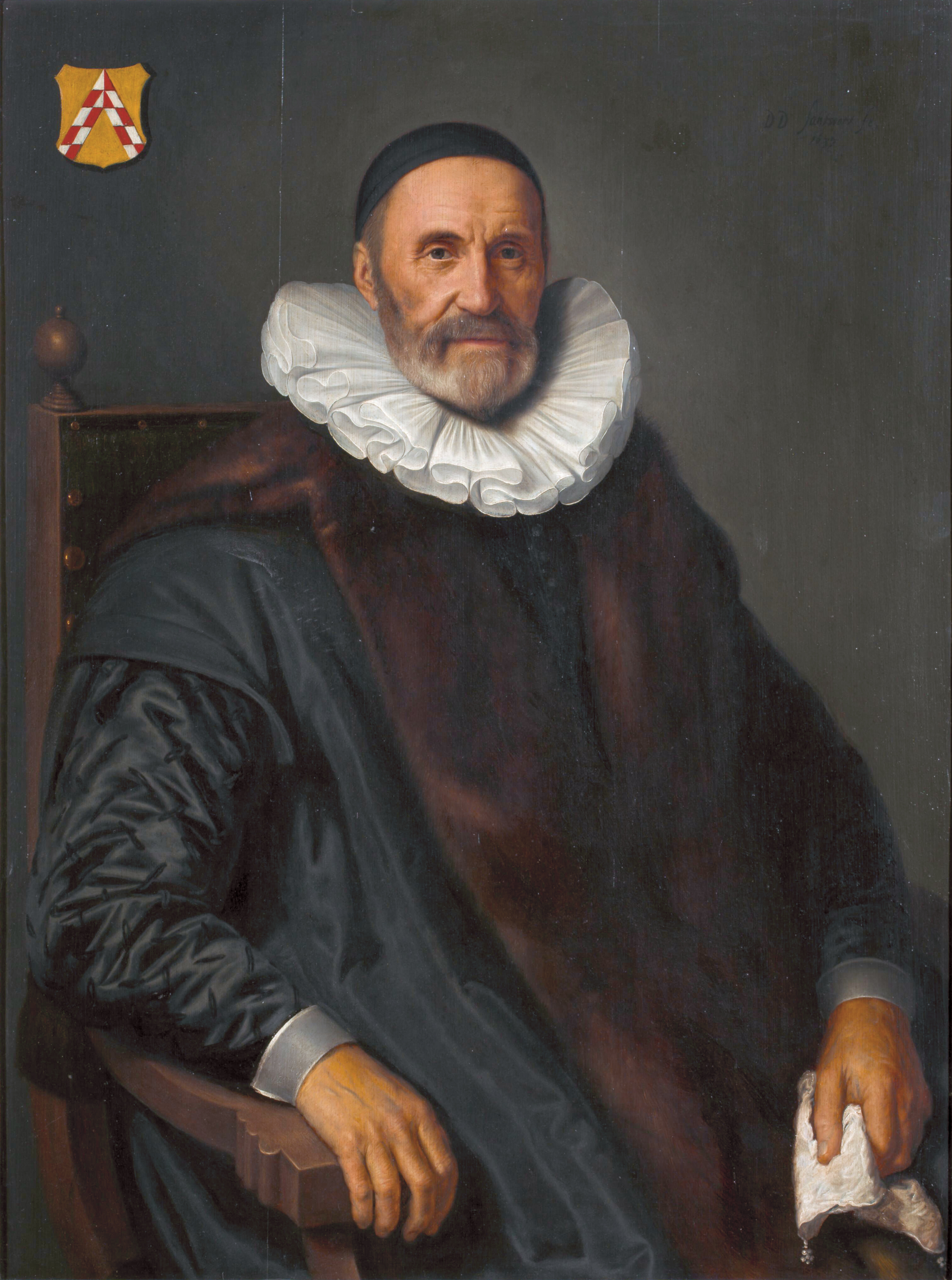 Nicolaes (Claes) Heereman (1562-1650) oil on panel 93 x 70 cm signed t.r.: DD Santvort fe. / 1637